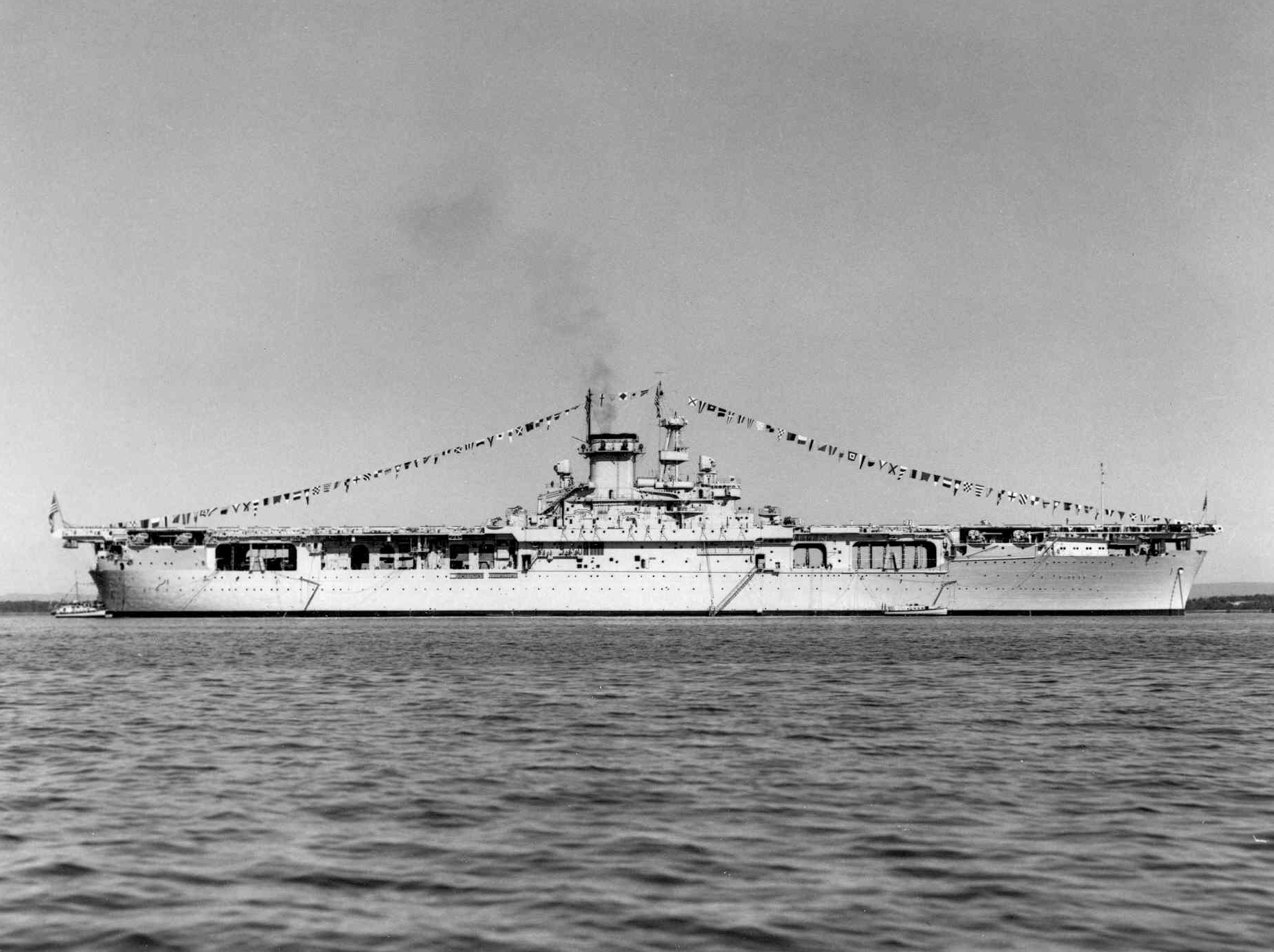 The U.S. Navy aircraft carrier USS Wasp (CV-7) anchored in Guantanamo Bay, Cuba, while "dressed" with flags for Navy Day, 27 October 1940.